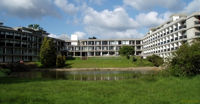 Description: Picture of Wolfson College, Oxford, Spring 2005. Source: Taken myself.